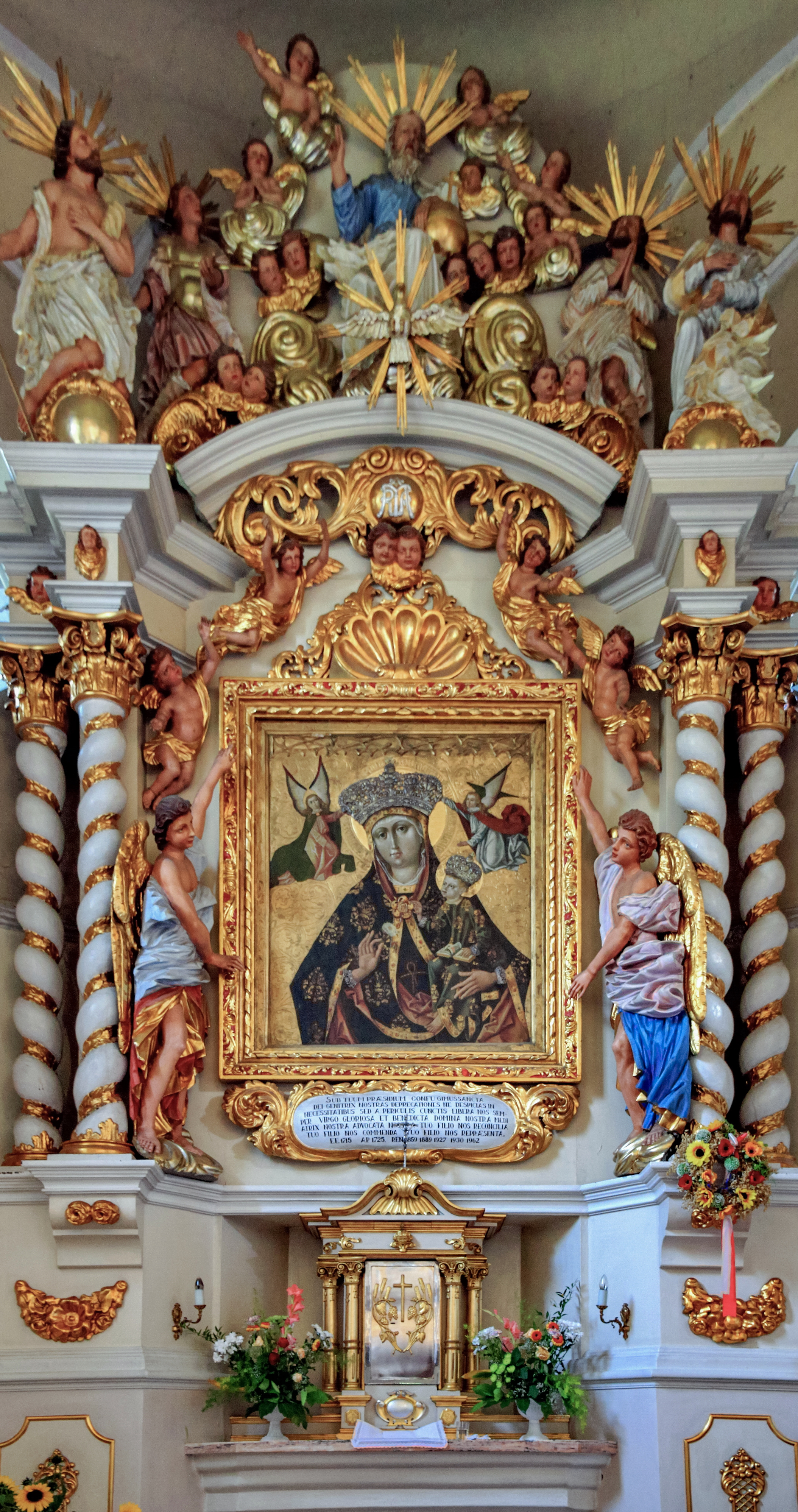 Painting of Madonna and Child. Church of the Nativity of the Blessed Virgin Mary. Kończyce Małe, Silesian Voivodeship, Poland.